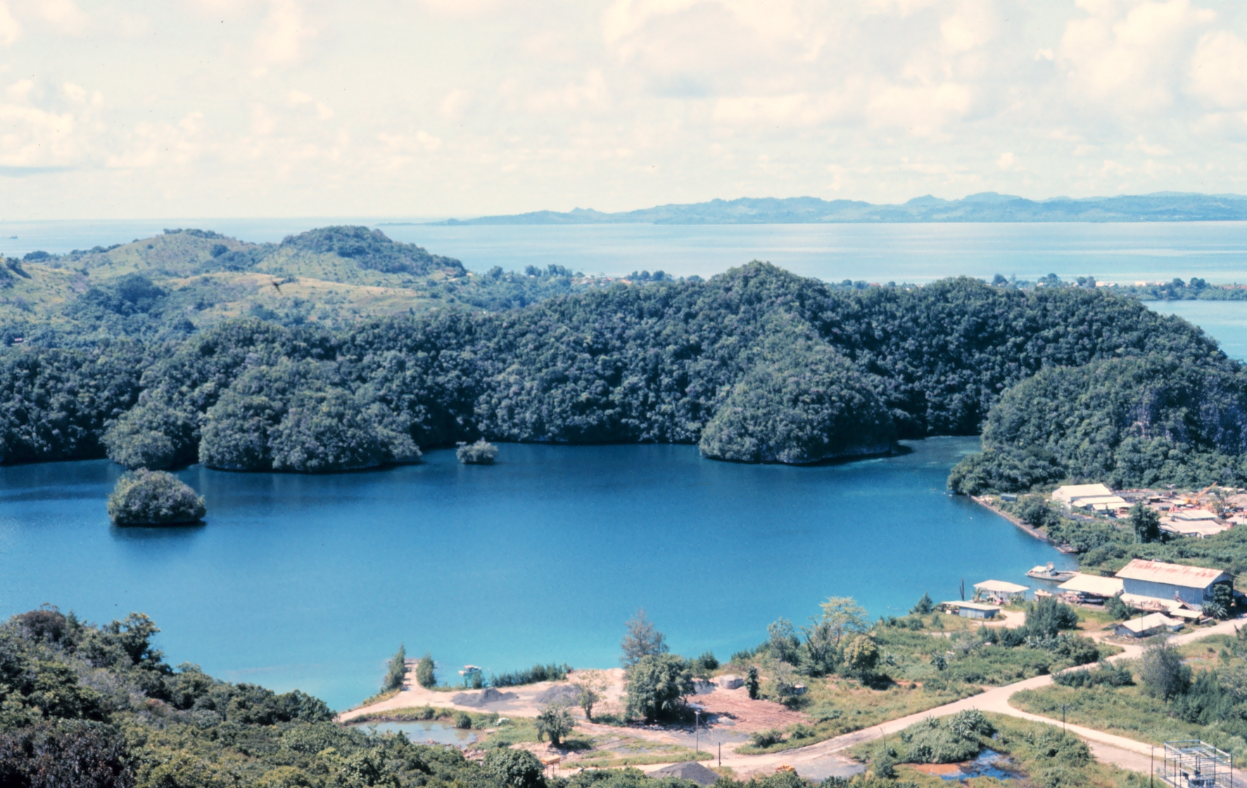 Palau boatyard on Malakal Island, Koror - August 1973